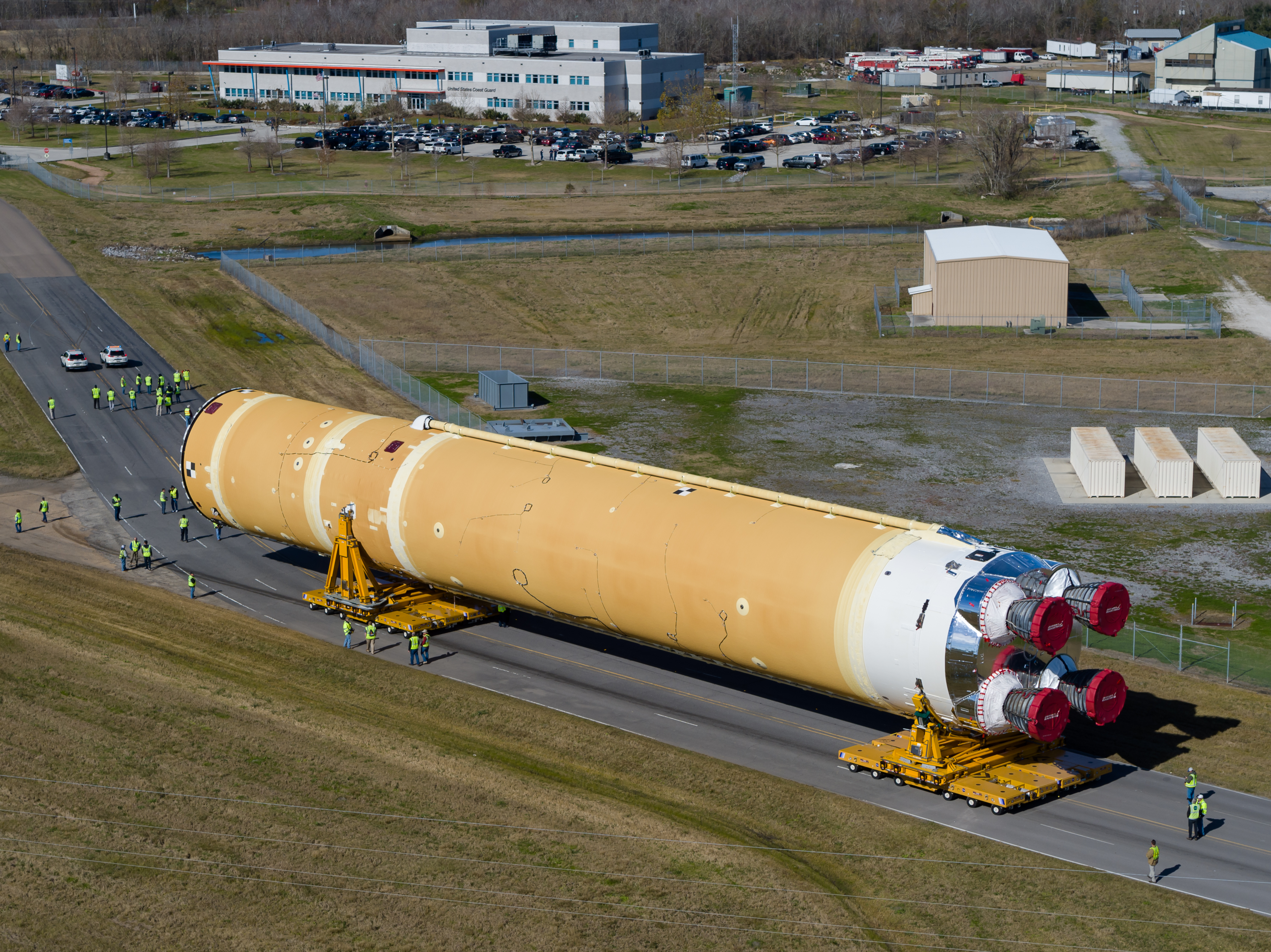 These images/video show how teams rolled out, or moved, the completed core stage for NASA’s Space Launch System rocket from NASA’s Michoud Assembly Facility in New Orleans. Crews moved the flight hardware for the first Artemis mission to NASA’s Pegasus barge on Jan. 8 in preparation for the core stage Green Run test series at NASA’s Stennis Space Center near Bay St. Louis, Mississippi. Pegasus, which was modified to ferry SLS rocket hardware, will transport the core stage from Michoud to Stennis for the comprehensive core stage Green Run test series. Once at Stennis, the Artemis rocket stage will be loaded into the B-2 Test Stand for the core stage Green Run test series. The comprehensive test campaign will progressively bring the entire core stage, including its avionics and engines, to life for the first time to verify the stage is fit for flight ahead of the launch of Artemis I. Assembly and integration of the core stage and its four RS-25 engines has been a collaborative, multistep process for NASA and its partners Boeing, the core stage lead contractor, and Aerojet Rocketdyne, the RS-25 engines lead contractor. Together with four RS-25 engines, the rocket’s massive 212-foot-tall core stage — the largest stage NASA has ever built — and its twin solid rocket boosters will produce 8.8 million pounds of thrust to send NASA’s Orion spacecraft, astronauts and supplies beyond Earth’s orbit to the Moon and, ultimately, Mars. Offering more payload mass, volume capability and energy to speed missions through space, the SLS rocket, along with NASA’s Gateway in lunar orbit and Orion, is part of NASA’s backbone for deep space exploration and the Artemis lunar program.